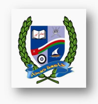 Sohar University first private university in Oman affiliated by University of Queensland